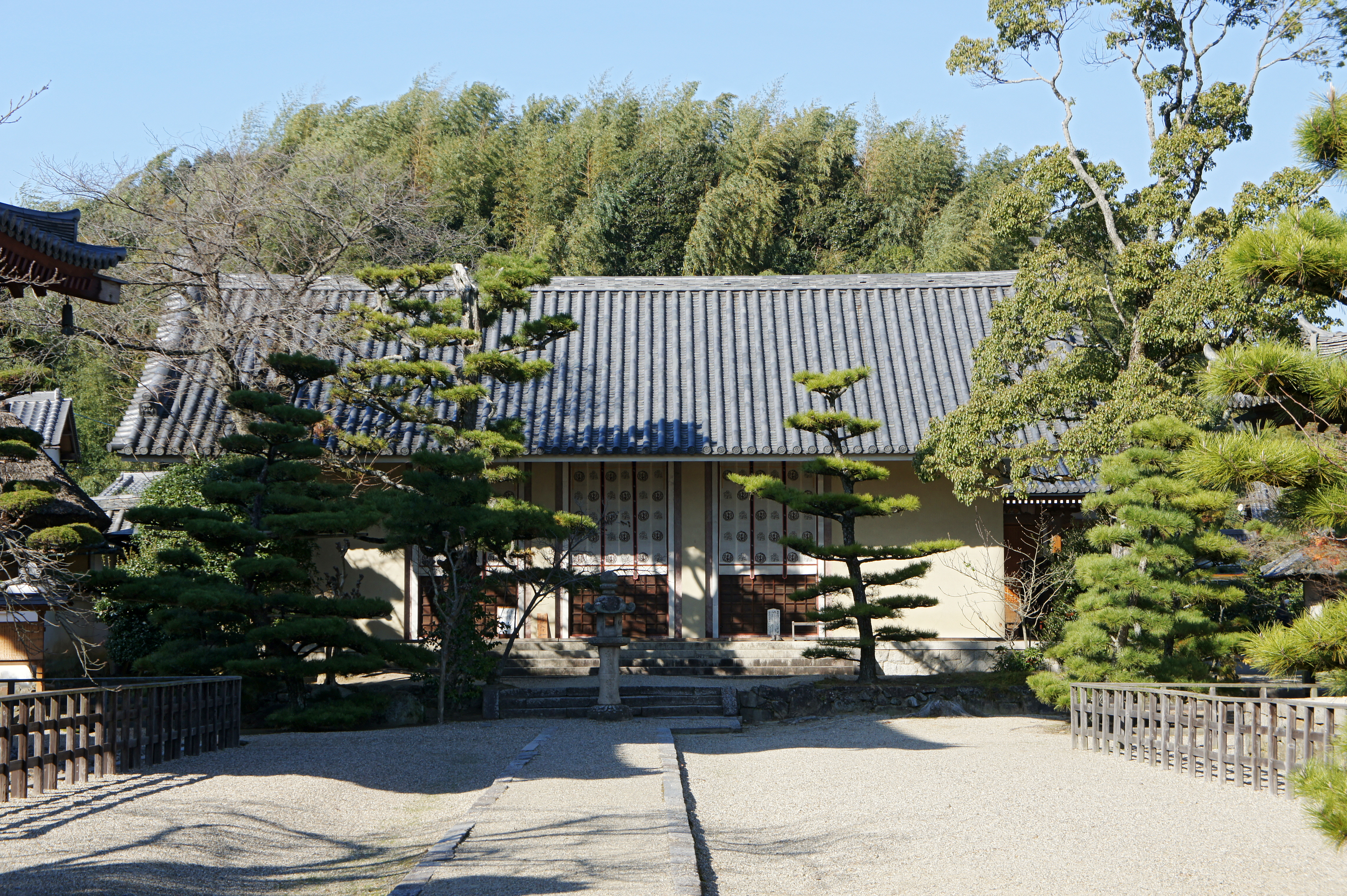 Hōrin-ji is a Buddhist temple in Ikaruga, Nara prefecture, Japan.